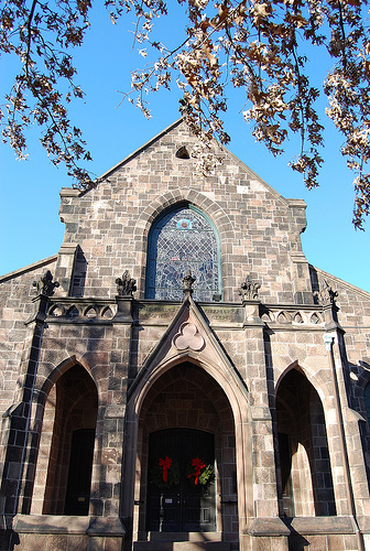 The East Portal (main entrance) of Kirkpatrick Chapel at Rutgers University in New Brunswick, New Jersey. Hardenbergh's 1873 design incorporated 14th German Gothic elements, notably this three-gallery portal.